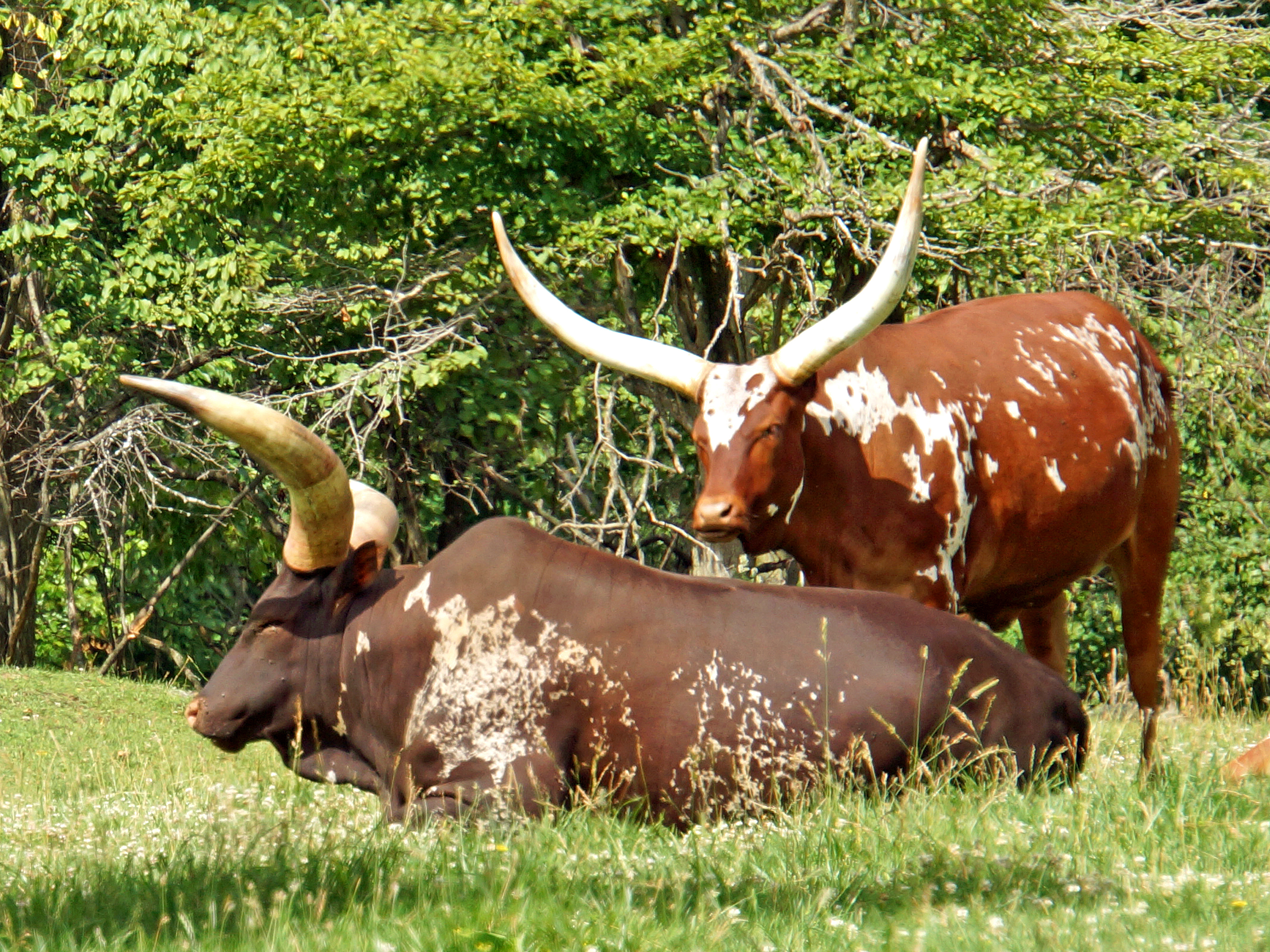 Ankole-Watusi, photographed near Cambridge, Ontario by Dennis Jarvis, cropped from the original